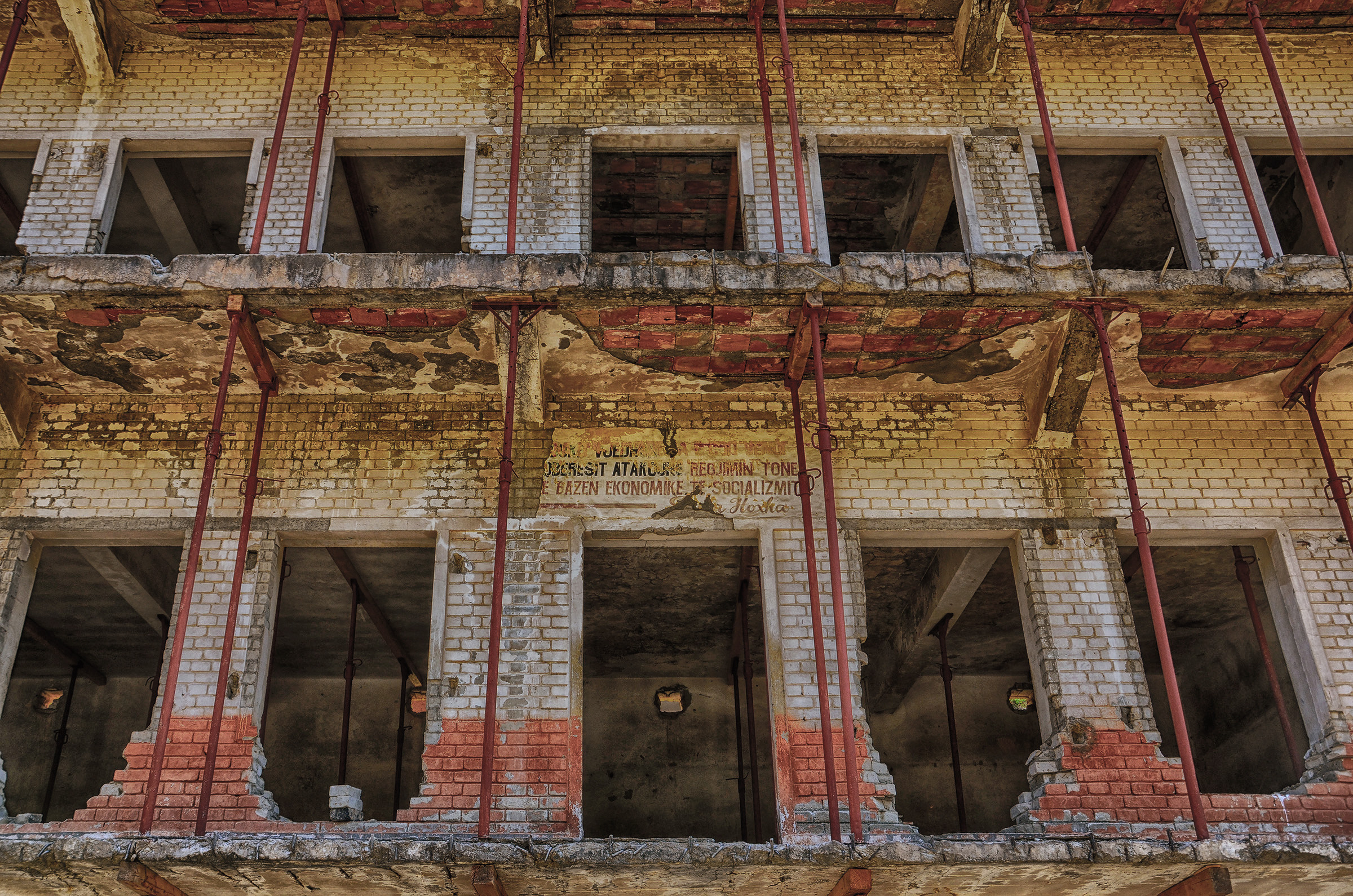 The facade of the prisoners' quarter with communist slogans